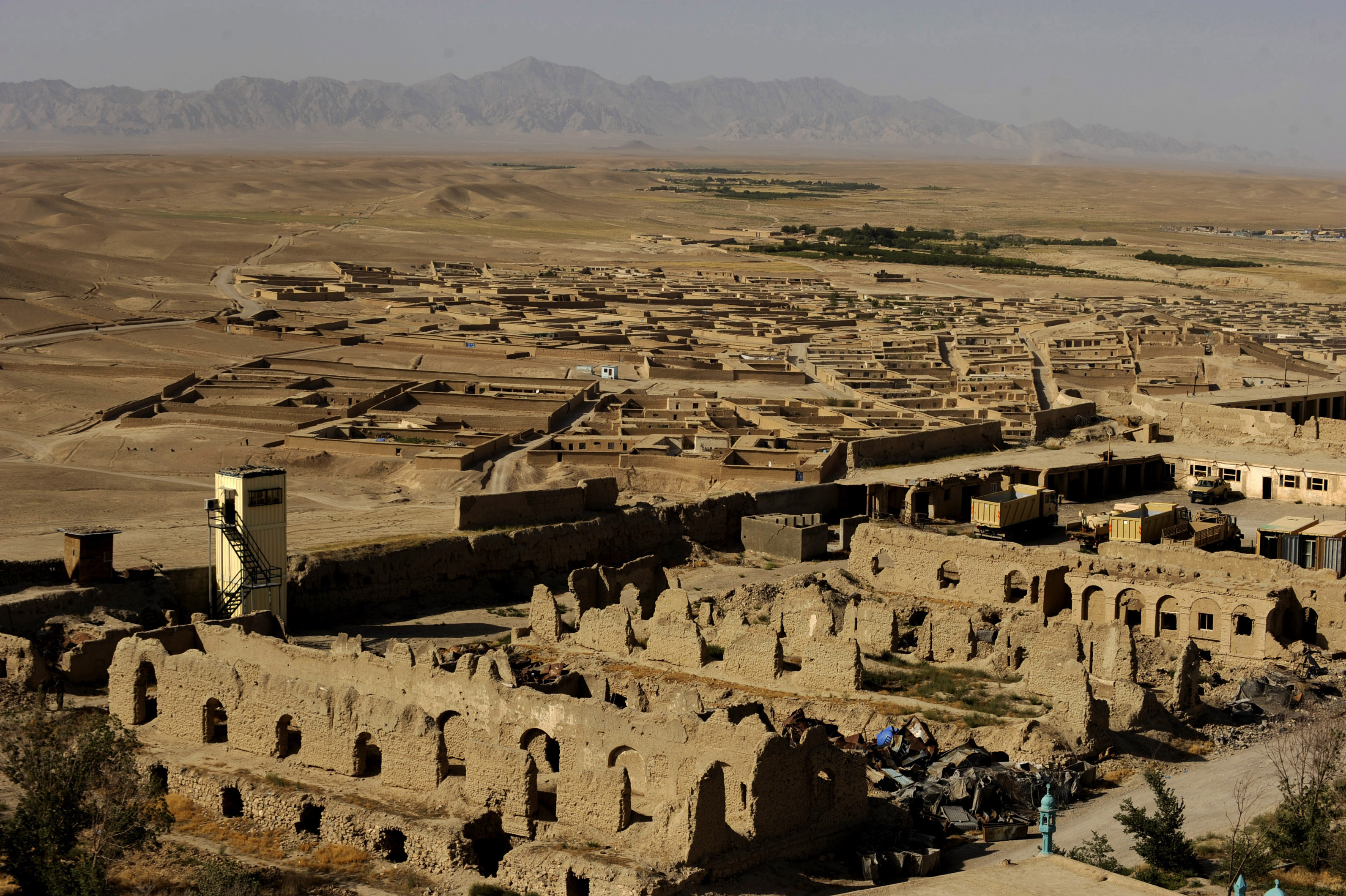 Remains of Alexander the Great's "Castle," now used by Afghan National Army soldiers and soon, U.S. Soldiers and Airmen assigned to Provincial Reconstruction Team Zabul May 31, in Qalat City, Afghanistan. According to local officials, the fortress was built more than 2,000 years ago by the legendary Greek leader, Alexander the Great during his push to India. Unit: U.S. Air Forces Central Command Public Affairs DVIDS Tags: U.S. Soldiers; Qalat City; Afghan National Army Soldiers; Afghanistan; Combat Camera; PRT; Provincial Reconstruction Team Zabul; Forward Operating Base Smart; Ball Haizer; 110th Infantry Battalion; Alexander the Great Castle; historic Afghanistan site; National Guard